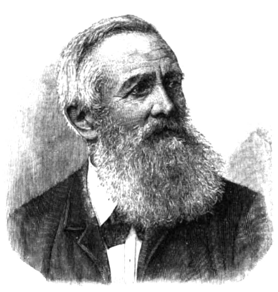 caption: "Ernst Ludwig Taschenberg †. Nach einer Aufnahme von C. Höpfner Nachf. Fritz Möller in Halle a. S."